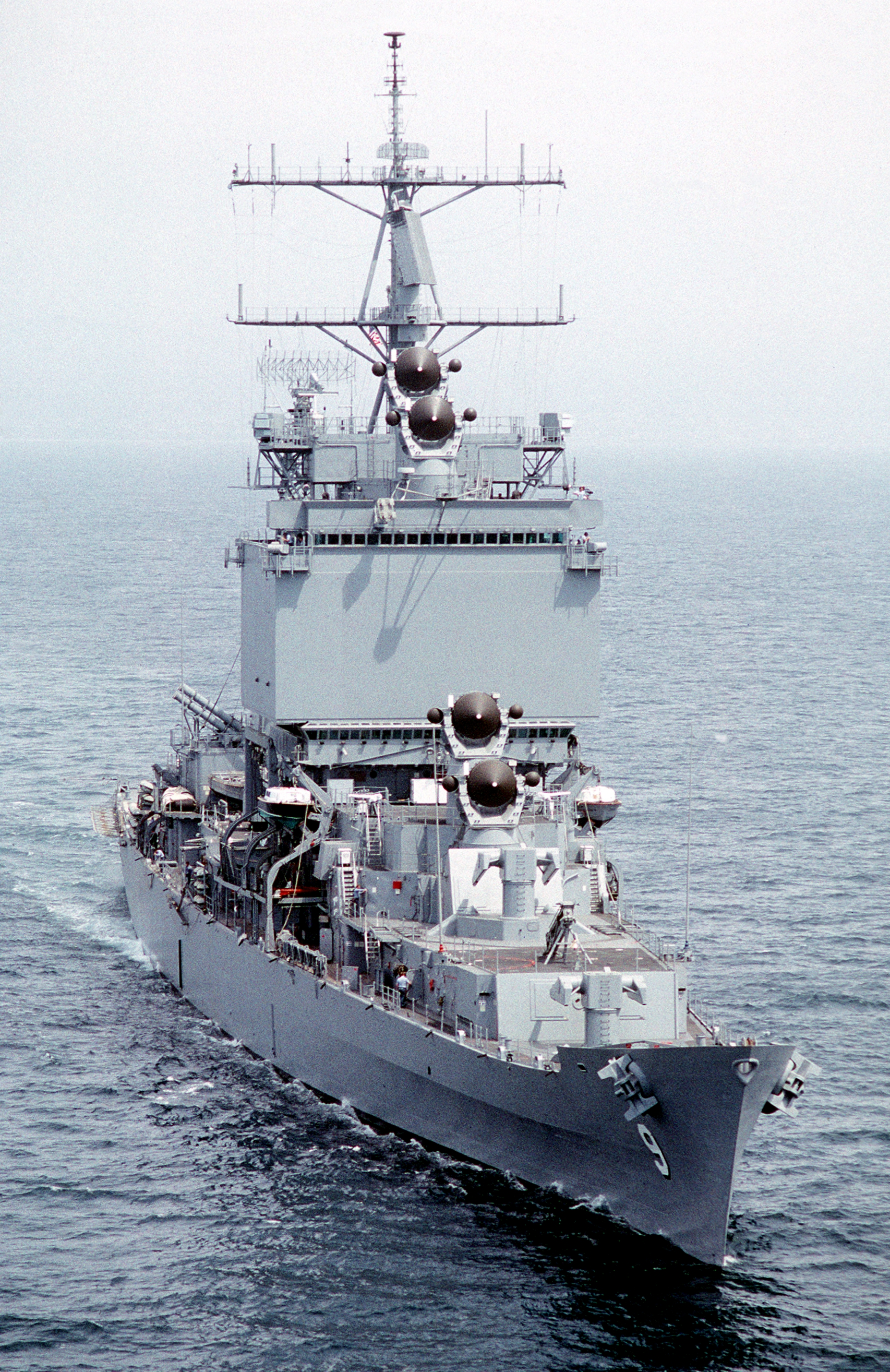 The U.S. Navy guided missile cruiser USS Long Beach (CGN-9) underway off the coast of Southern California, 21 June 1989.